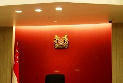 The inside of a courtroom in the Supreme Court of Singapore.